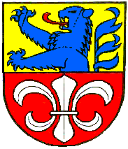 COA of Oberschrot, Switzerland